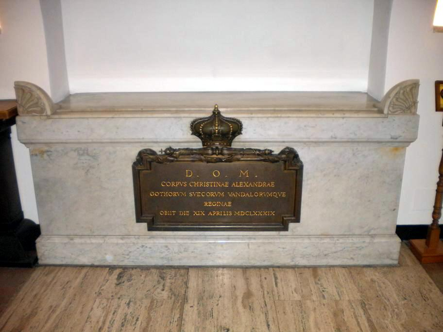 Grave of Queen Christina of Sweden in the extensive papal crypt area of St. Peter’s Basilica, as released by image creator Ristesson;Place: Vatican City, Vatican State